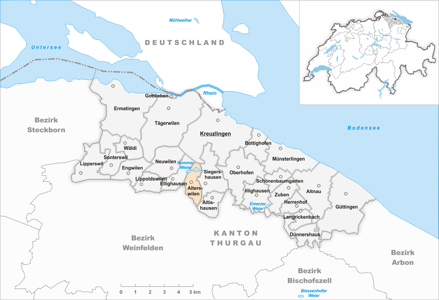 Municipality Alterswilen